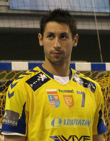 Mateusz Zaremba 2011